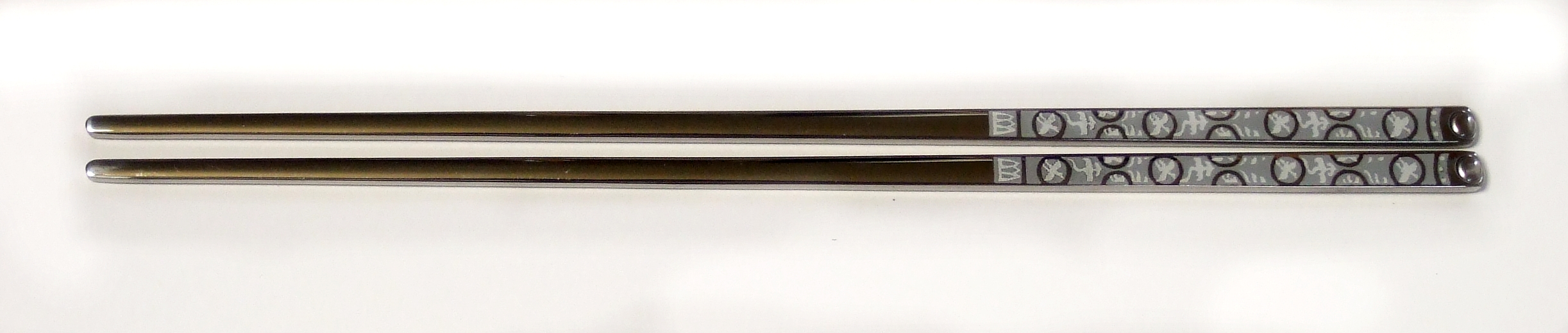 Chopsticks often used in Korea. Photo taken in Japan.